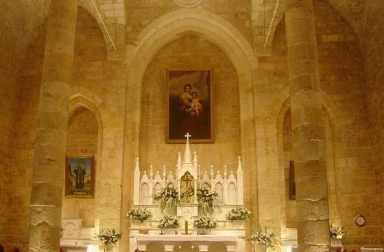 Photo of the interior of Our Lady of Ain Ebel (Notre Dame d'Ain Ebel) after its 2005 restoration.